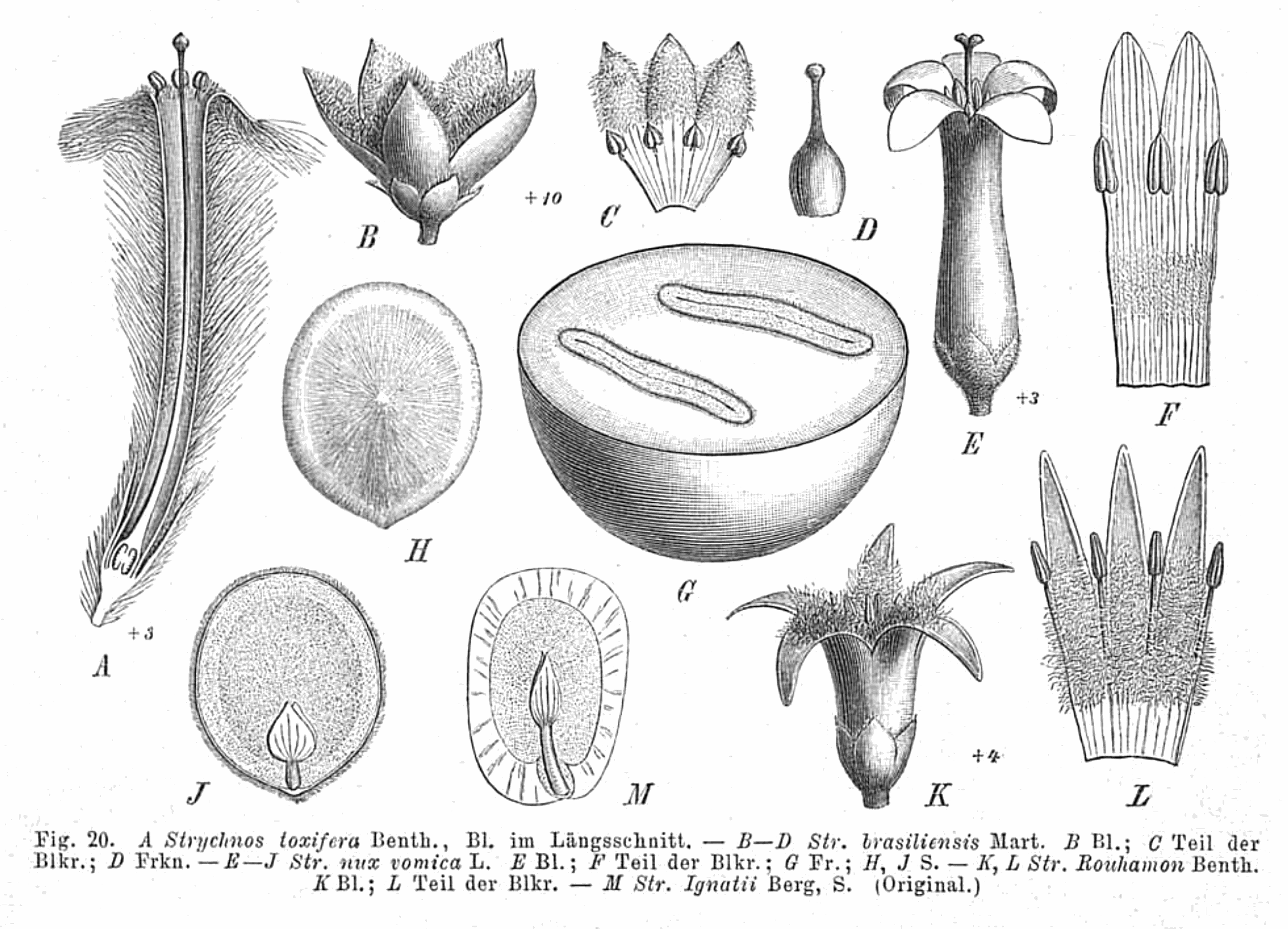 Strychnos spp. A. S. toxifera: Long. cut of flower. B-D. S. brasiliensis: B. Flower. C. Petals, flattened. D. Ovary. E-J. S. nux-vomica: E. Flower. F. Petals, flattened. G. Fruit. H/J. Seed. K/L. S. rouhamon: K.: Flower. L. Petals, flattened. M. S. ignatii: Seed.